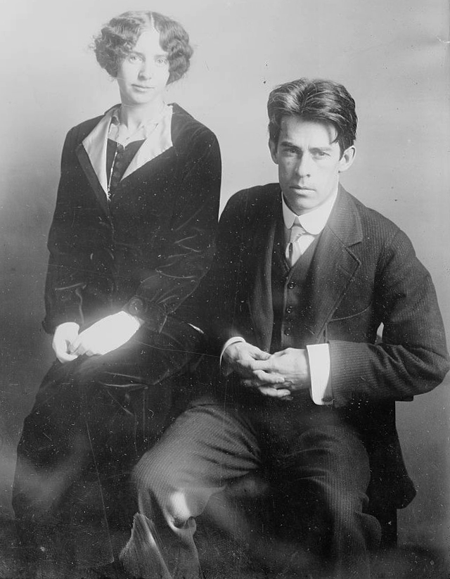 Ralph Lyford and Mrs. Ralph Lyford (Ella Gillis). Original text inscribed on photo: Ralph Lyford, Ass't Conductor, Boston Opera -- with Mrs. R. Lyford (Ella Gillis) of Ballet